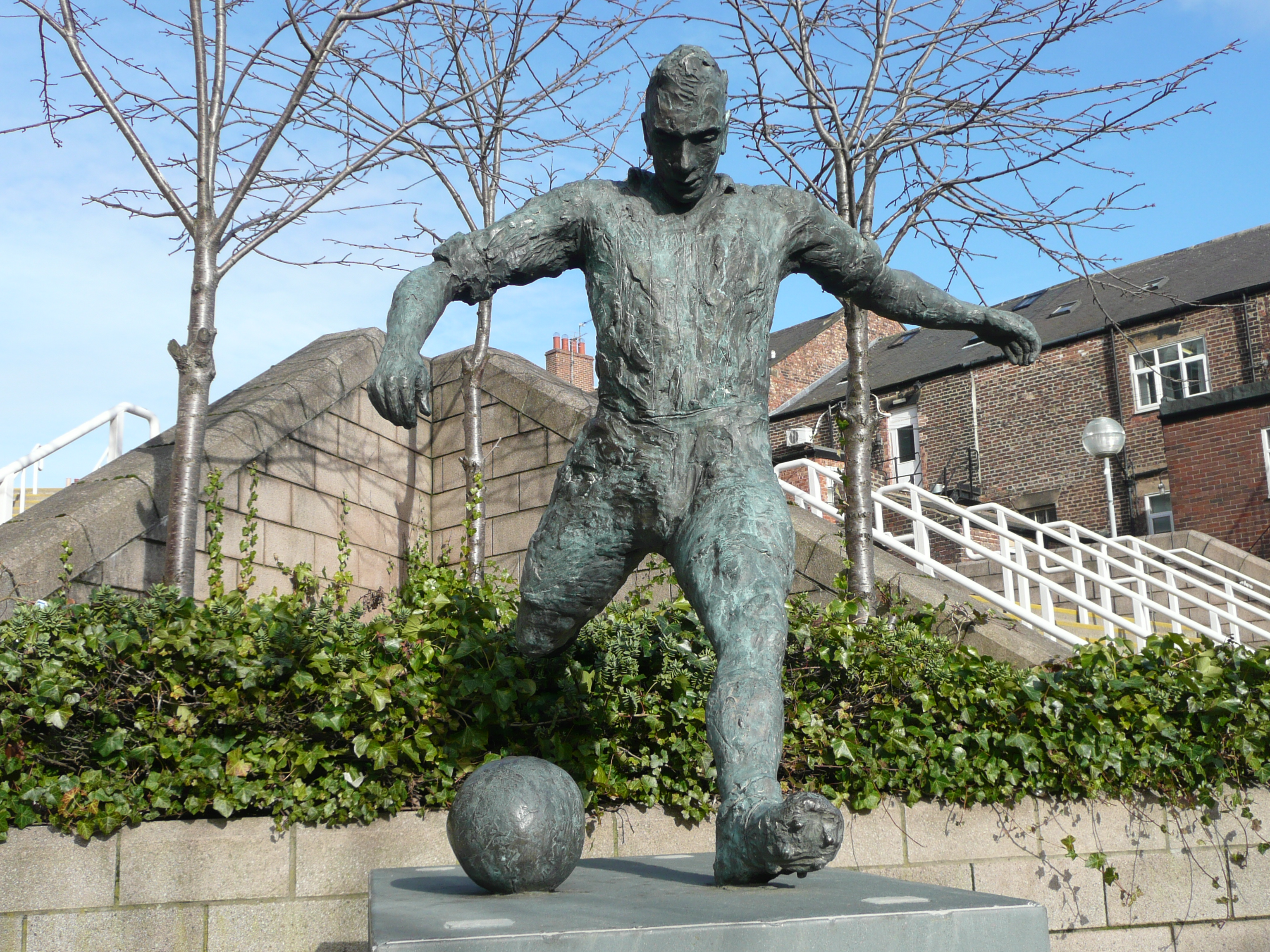 The statue of the Newcastle United and England footballer Jackie Milburn (1924-1988), located at the south east corner of United's St James' Park stadium in Newcastle upon Tyne. Milburn scored 200 goals for the club between 1943 and 1957. One of three statues of Milburn in the north east region, this is the second to be sited outside the stadium, having been moved here on 23 April 2012. See Statues of Jackie Milburn for full details.